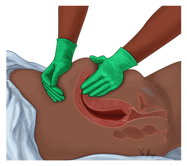 Image depicting an atonal uterus receiving a uterine massage.